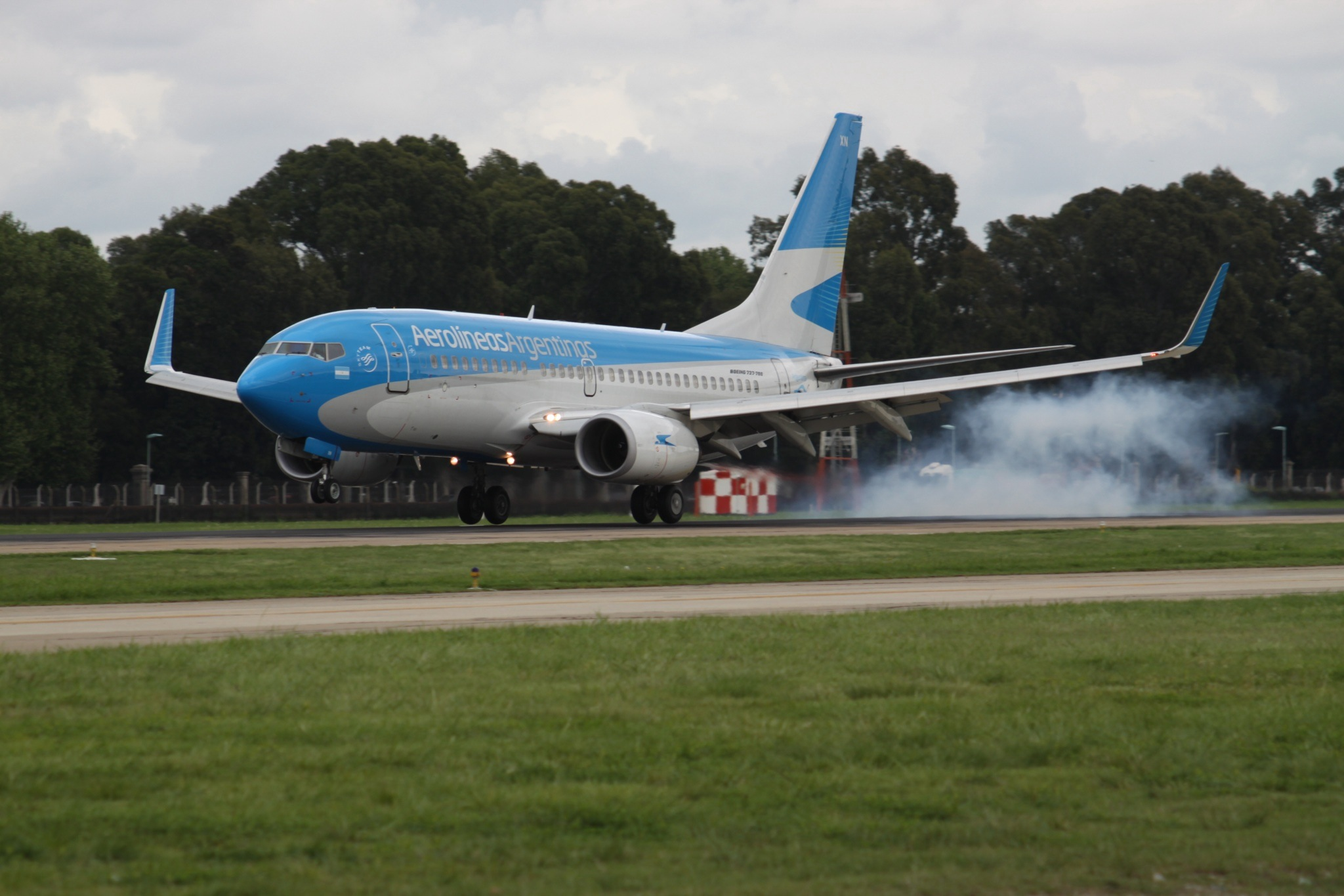 At Buenos Aires Aeroparque